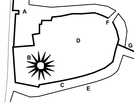 Plan of Worcester Castle before 1217, using description given in Baker & Holt's "Urban Growth and the Medieval Church" (2004).